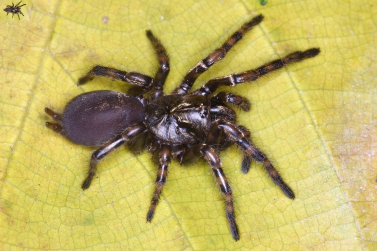 Fufius lucasae, female